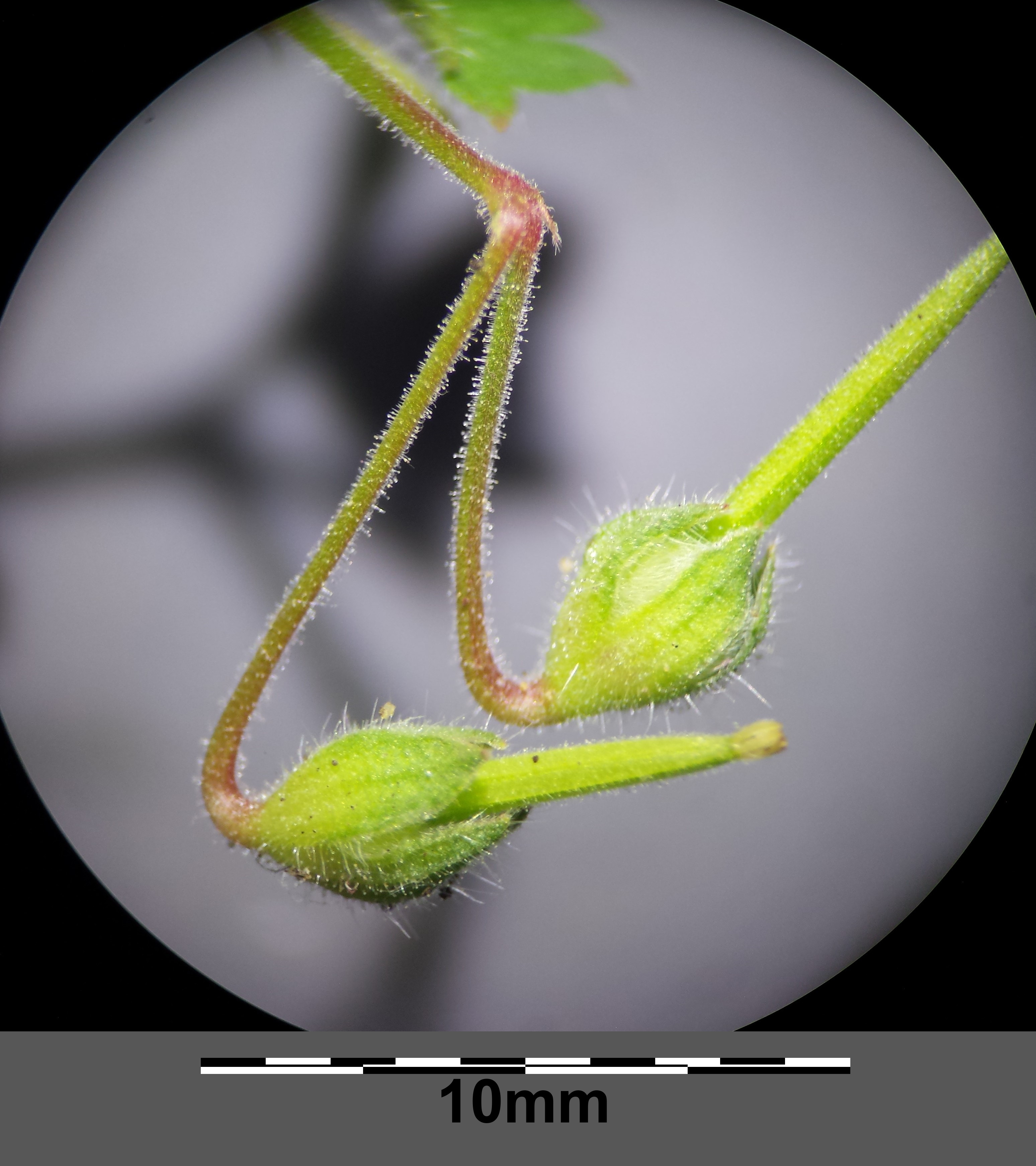 Infructescence Taxonym: Geranium pusillum ss Fischer et al. EfÖLS 2008 ISBN 978-3-85474-187-9 Location: Eichleiten to the North of Enzersfeld, district Korneuburg, Lower Austria - ca. 250 m a.s.l. Habitat: vineyard